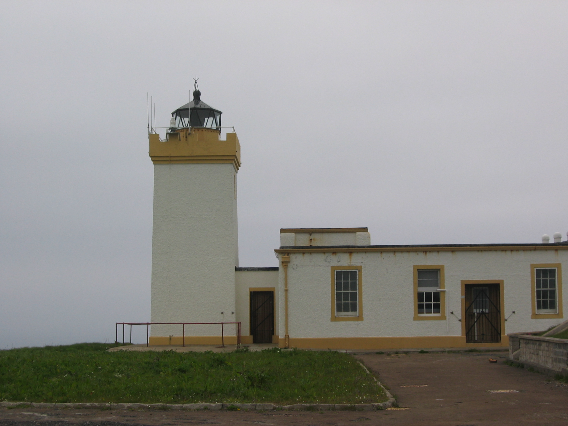 Duncansby Head Lighthouse, Highlands, Scotland